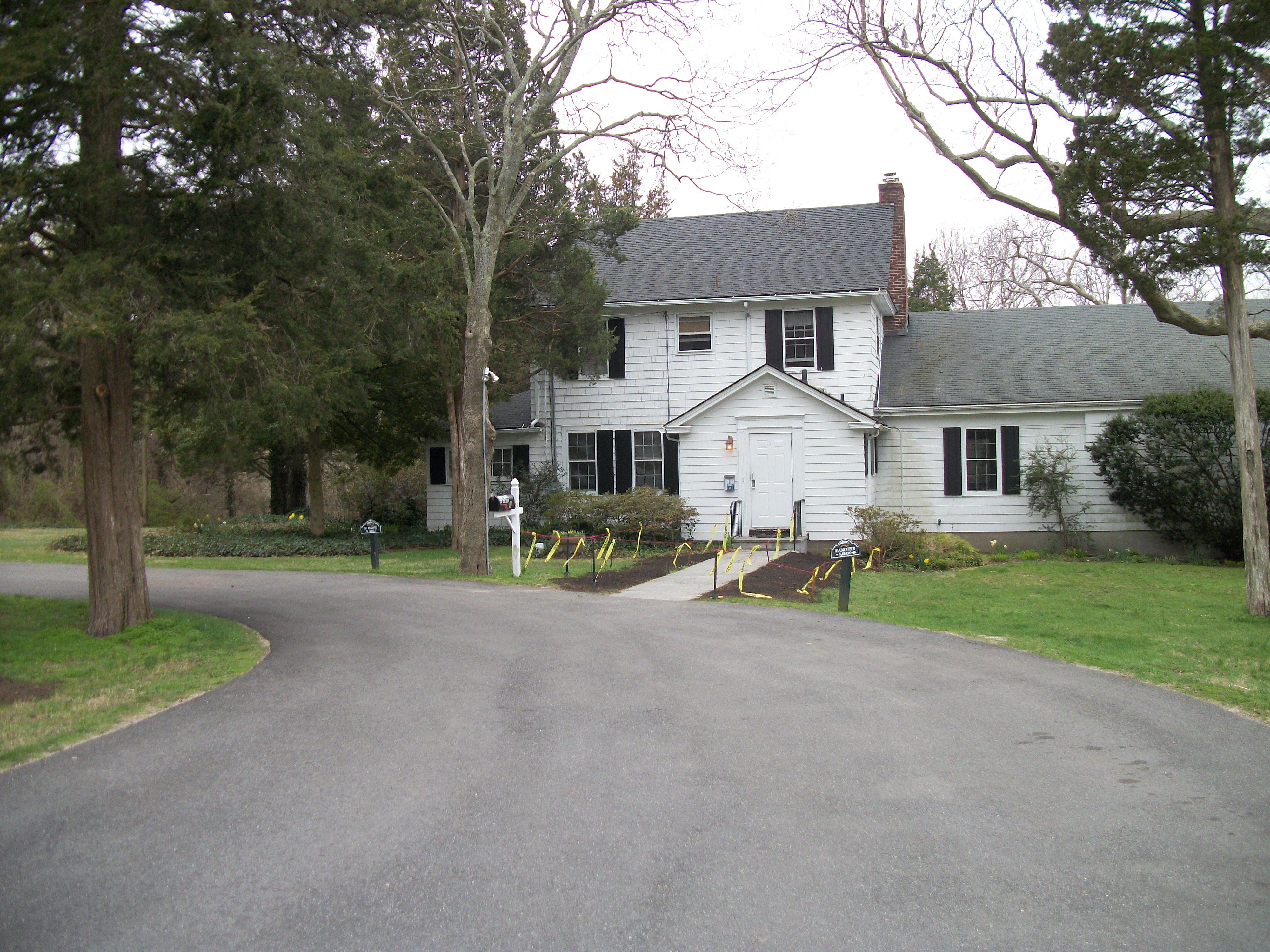 The Bates House, a formerly private residence and road, which is now part of the NRHP registered Frank Melville Memorial Park in Setauket, New York. This was added to the National Register of Historic Places on July 19, 2010, and the house is rented out for conventions, weddings, and other gatherings, and also features its own library.